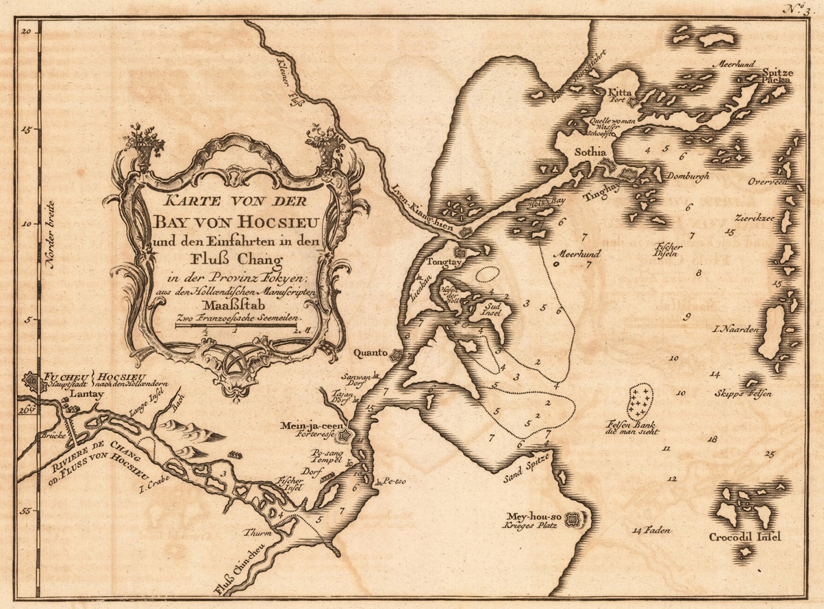 An 18th century atlas of "Bay of Foochow" by the Dutch, including the lower course of Min River from Fuzhou to the estuary and Luoyuan Bay